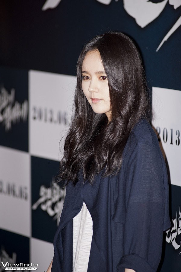 Han Ga-in at the Secretly, Greatly premier in May 27, 2013.